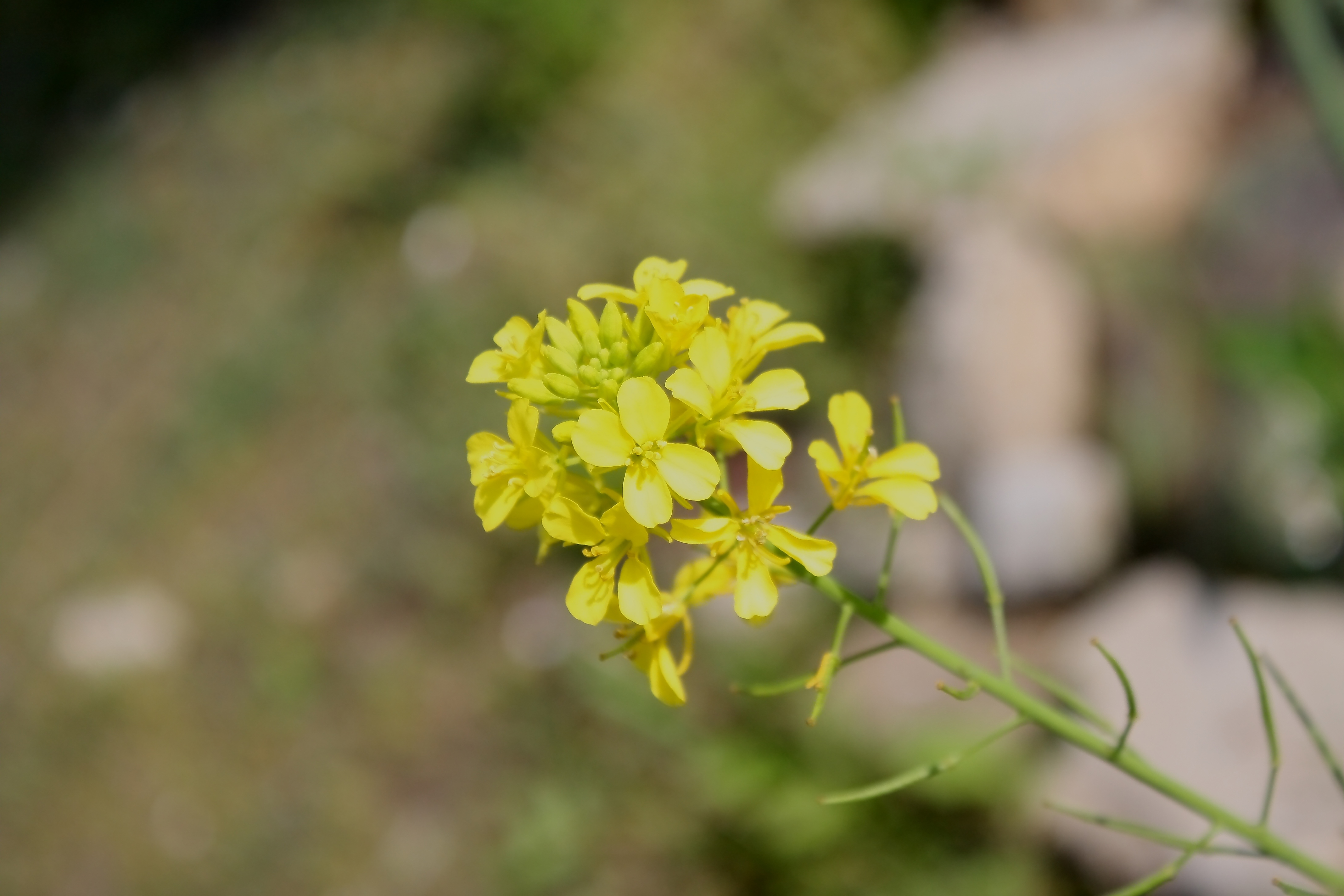 Brassica juncea var. juncea